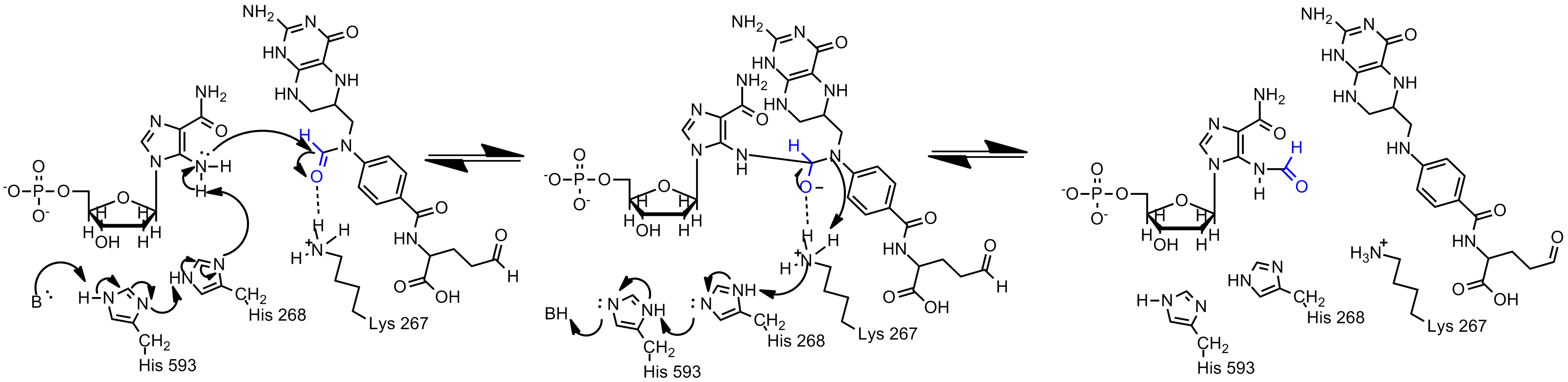 mechanism of enzyme AICAR transformylase